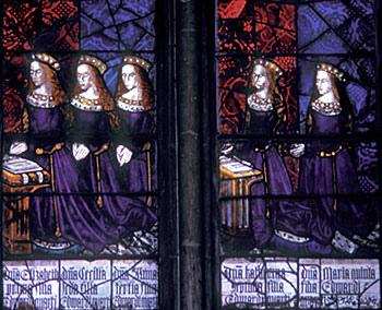 The daughters of Edward IV on a stained glass window: Elizabeth of York, Cecily of York, Anne of York, Katherine of York & Mary of York.